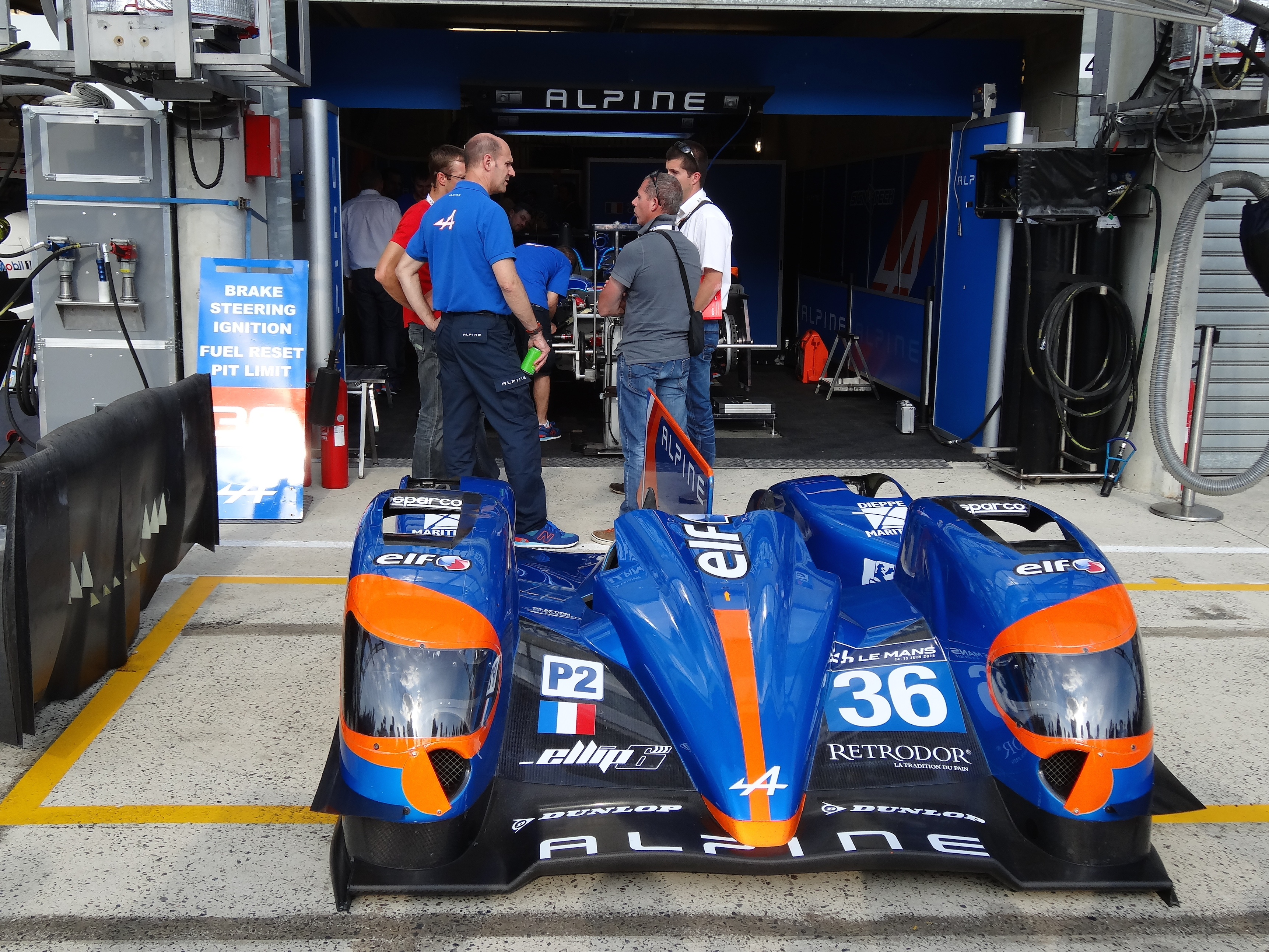 Signatech Alpine A450b-Nissan Le Mans 2014